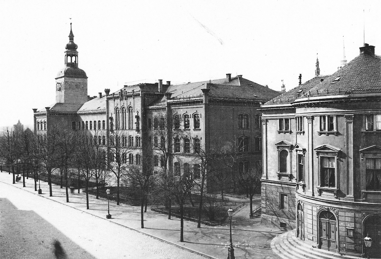 Bautzen; Lauengraben Street with City theatre, Luther school and Lauenturm Tower ca. 1905